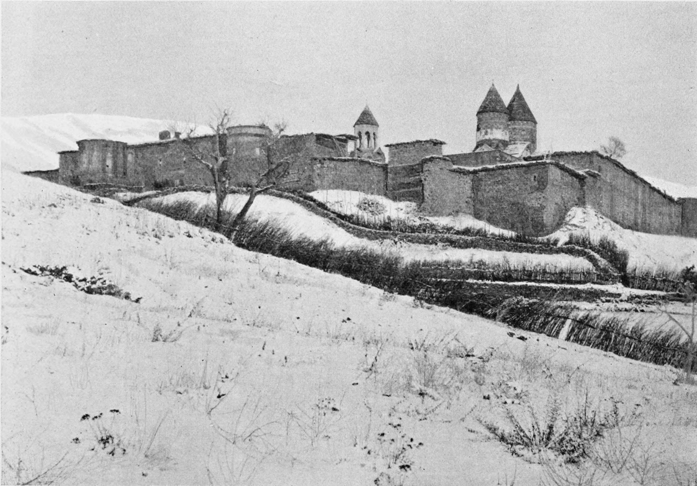 The 4th century Armenian monastery of Surb Karapet in the Taron Province of historic Armenia (at the time of the photo in the Ottoman Empire, present day Turkey).